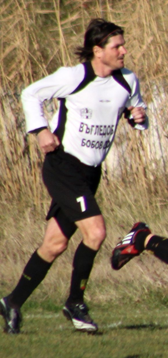 Plamen Petrov - bulgarian soccer player